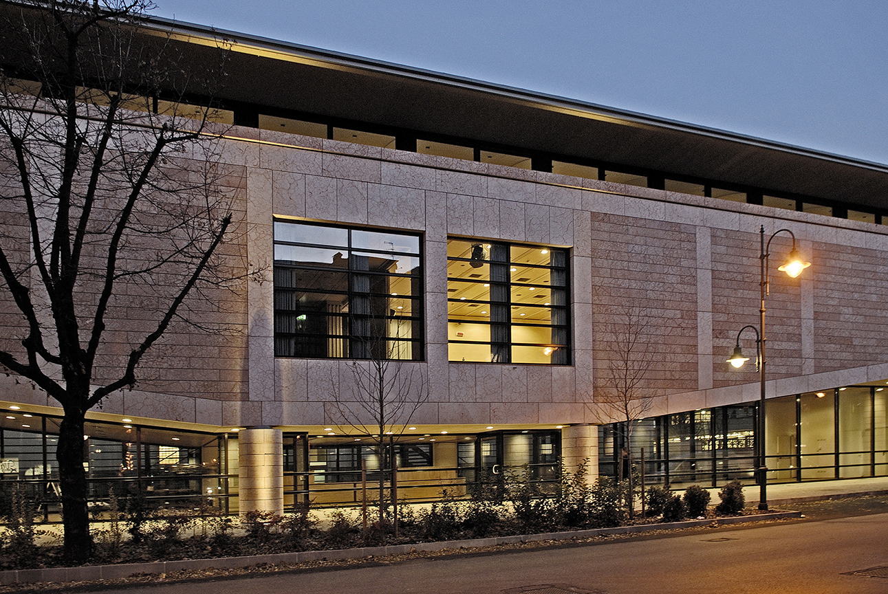 nuova facoltà di giurisprudenza a Trento in Corso RosminiAllestimenti Grisenti Costruzioni Elettriche